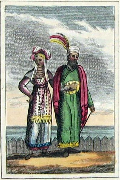 From Mary Annie Venning, 'A Geographical Present; Being Descriptions of the Principal Countries of the World', London, 1820; compare *Man & Woman of Hindostan* Source: ebay, Dec. 2007